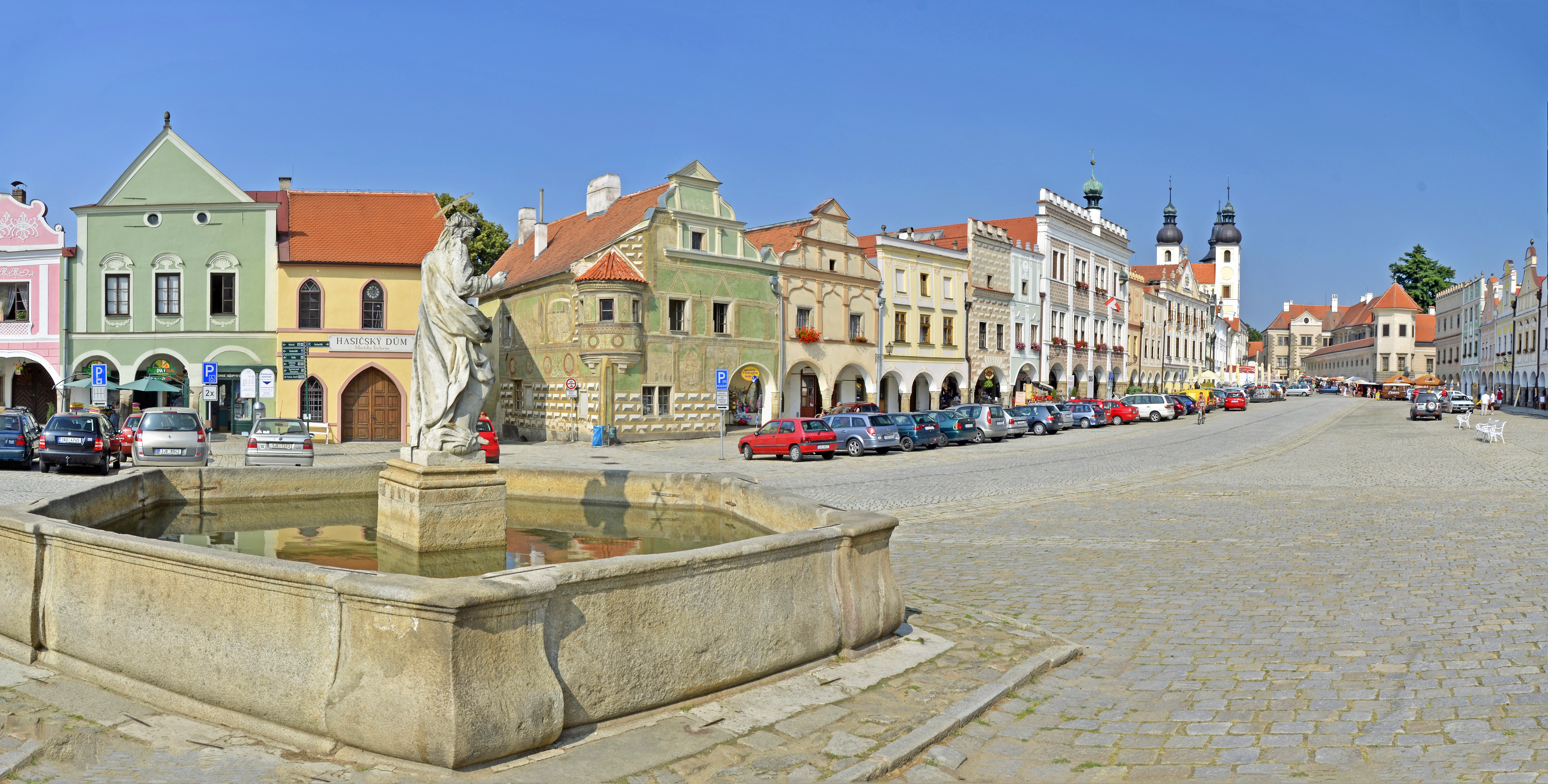 Telč (German: Teltsch) - Market Place - Panorama - Czech Republic